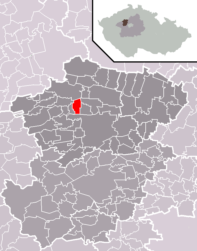 Location of Neprobylice municipality within Kladno District and administrative area of Slaný as a Municipality with Extended Competence.